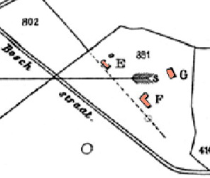 Detail of a map by Jozef Habets of the archaeological excavations of Roman villa's in the area around Ravensbosch, Valkenburg, Limburg, the Netherlands. Here: three Roman structures at Valkenburg-Bosstraat. Colour added by Kleon3.